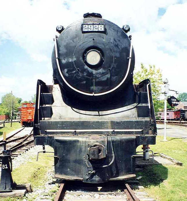 CPR no. 2928 Jubilee class F1a 4-4-4 at Exporail, Delson, QC